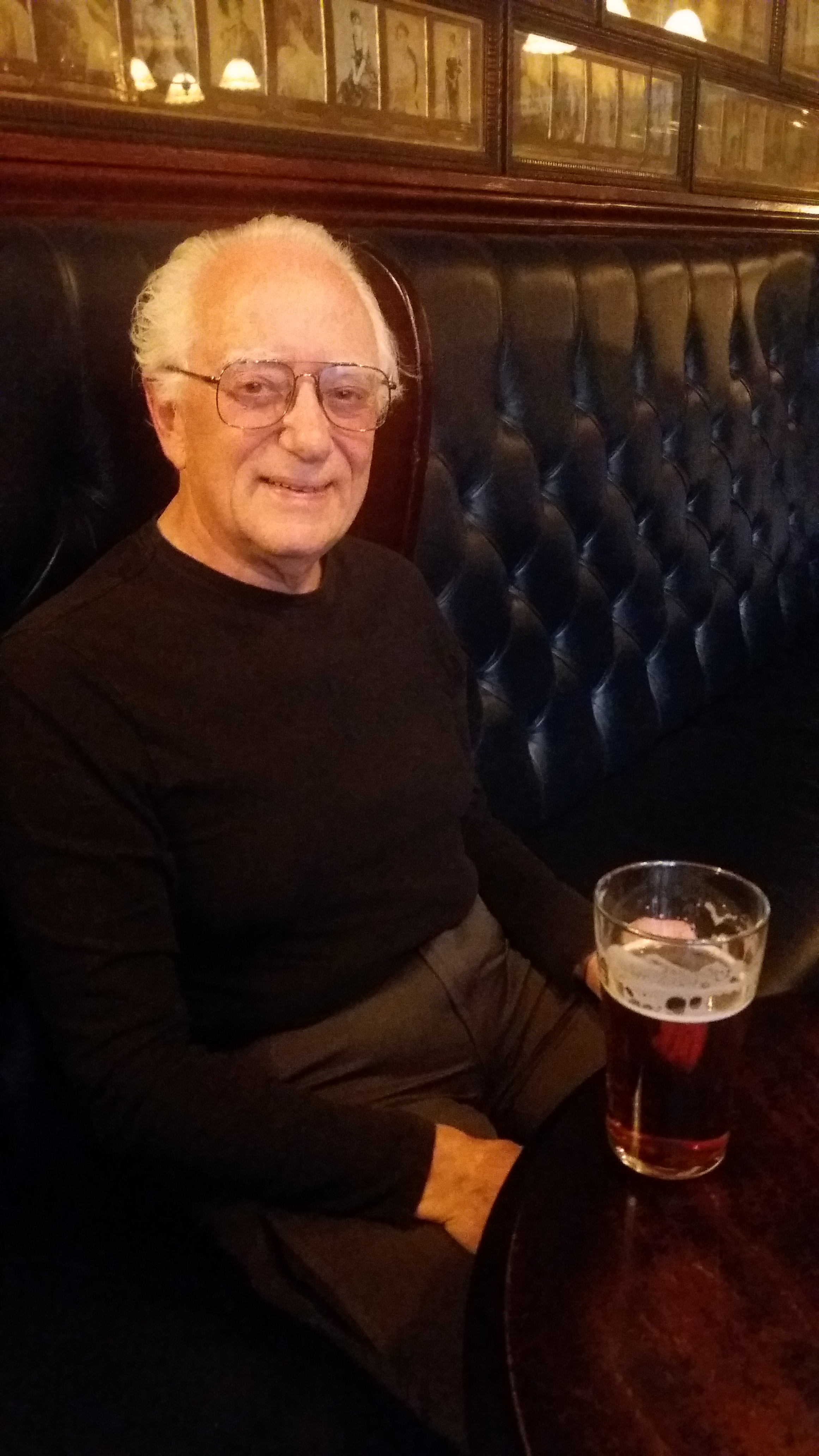 David S. H. Rosenthal at the Lamb, Lamb's Conduit Street, London WC1N 3LZ, United Kingdom, on 10 September 2018 at 17:40 BST (16:40 UTC). Photographed with Samsung J5. This is the original JPEG straight from the phone.